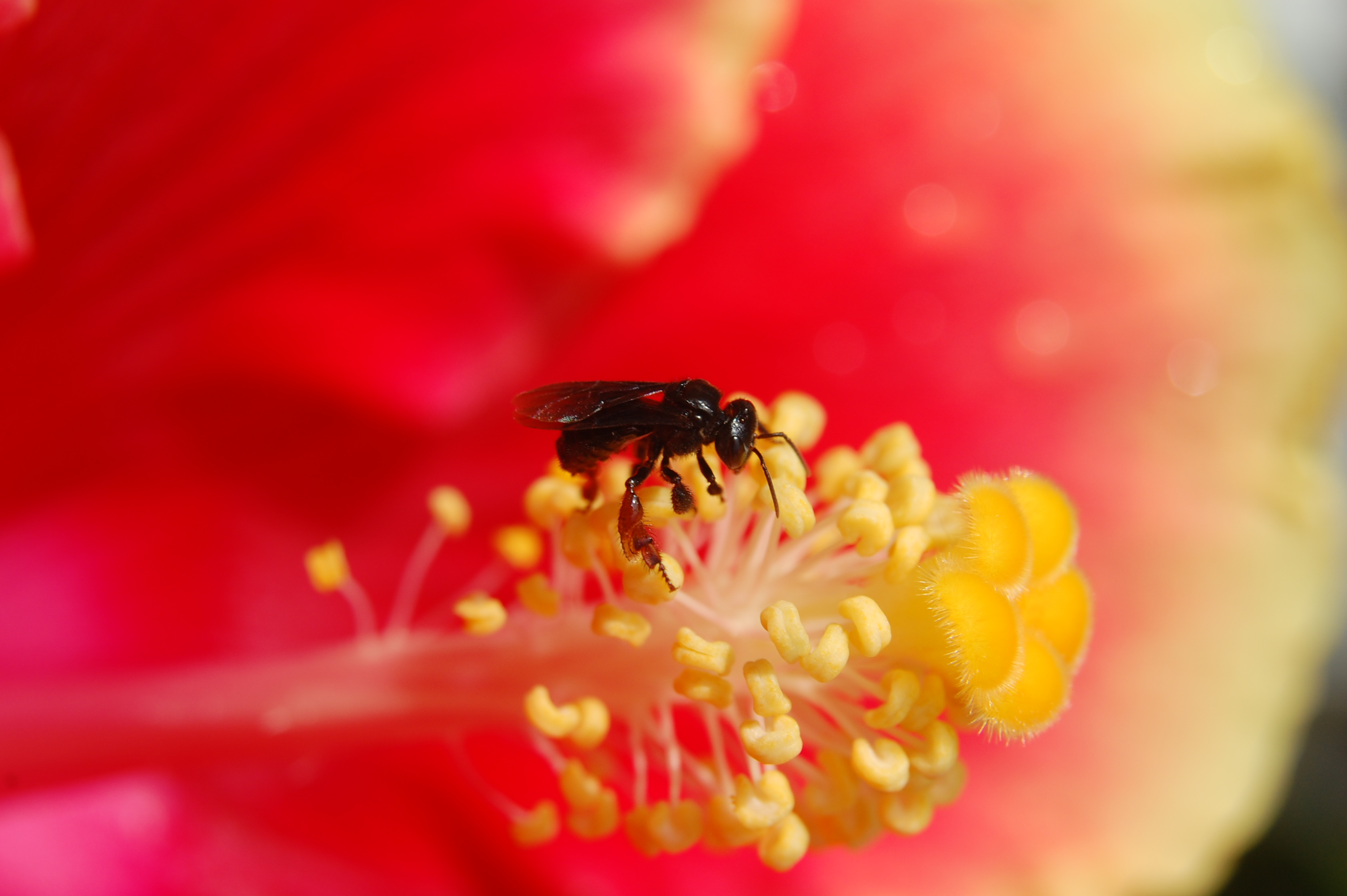 A Trigona spinipes bee on a hibiscus.